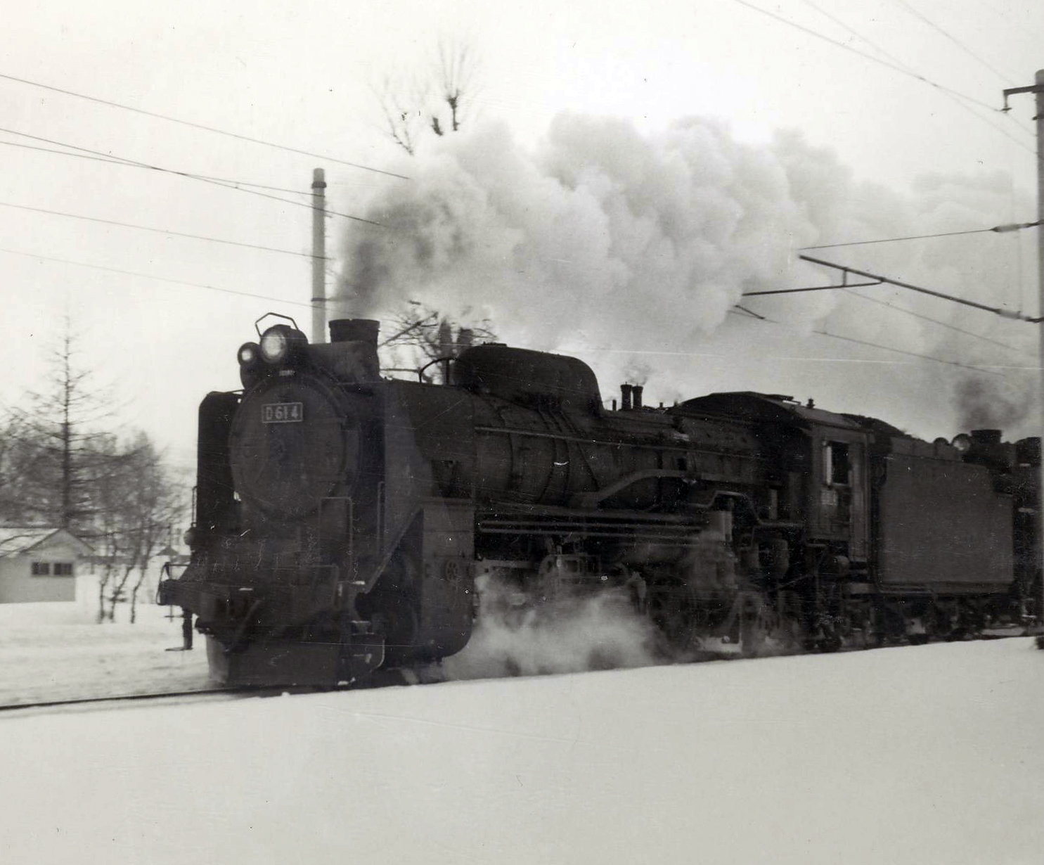 D61 4. She belonged to the locomotive railyard of Fukagawa, Hokkaido, Japan. Taken in 1974.